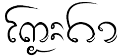 Lanna script – Ko Kha is a district (amphoe) in the central part of Lampang Province, northern Thailand.